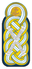 Military rank insignia of the German Kriegsmarine until 1945, here shoulder board Grossadmiral".